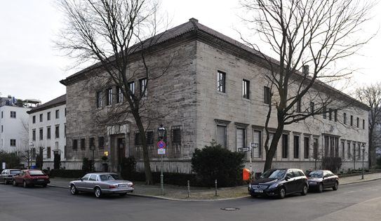 From 1942, the official residence of the Minister for the Occupied Eastern Territories Alfred Rosenberg, later transformed into the residency for the Government's official guests